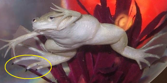 African Clawed Frog, Xenopus laevis.